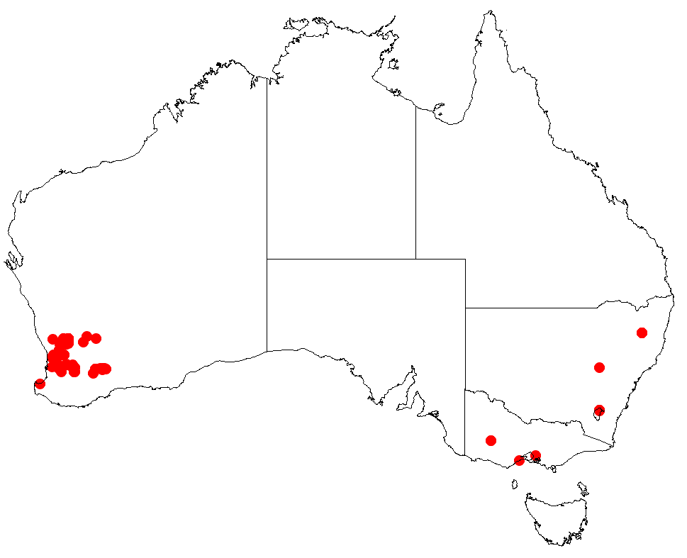 Hakea petiolaris Occurrence data downloaded from Australasian Virtual Herbarium on 22 November 2018 using